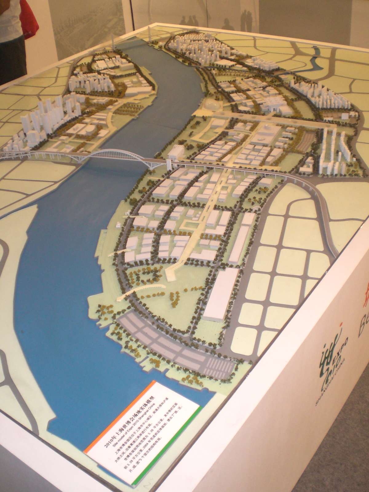 香港zh:中環荷李活道舊中區警署走進2010年上海世界博覽會推廣周 [1]